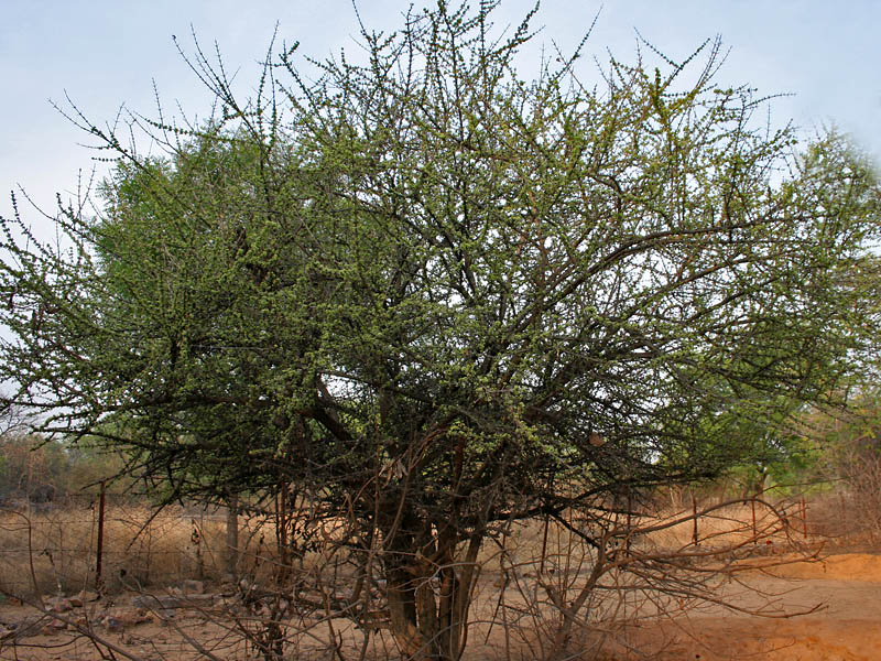 Canthium coromandelicum - Coromandel Canthium, Kirma, Kadbar, Nallakkarai, Kudiram, Sengarai, Kantankara, Niruri, Serukara, Sinnabalusu, Balusu,Karemullu, Ollepode, Tutidi, Kayili, Nagabala or Gangeruki at Deer Park in Shamirpet, Rangareddy district, Andhra Pradesh, India.